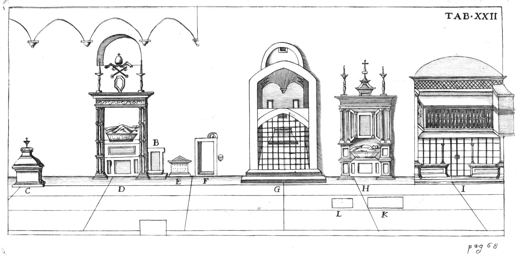 Engravings of (old) Saint Peter's Basilica in Rome.